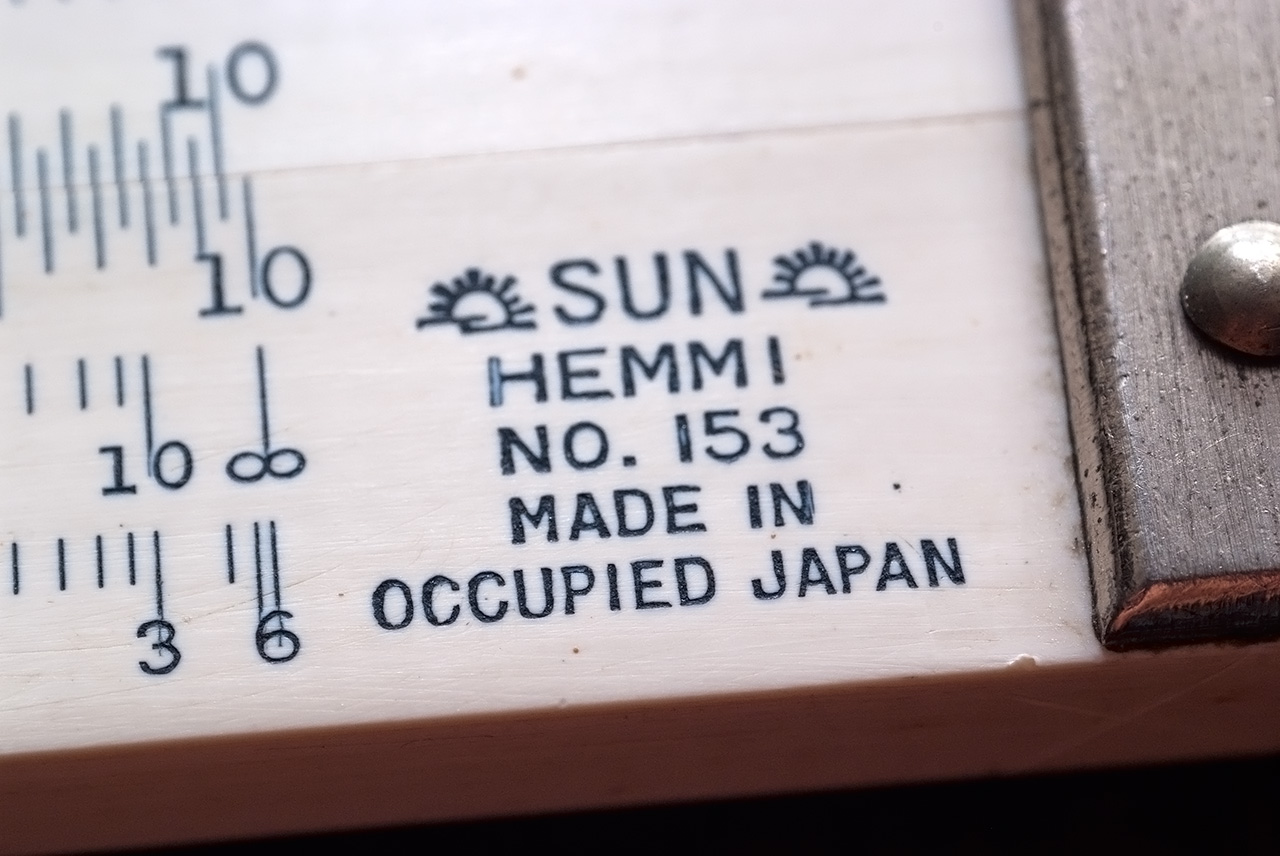 HEMMI Slide Rule No.153 MADE IN OCCUPIED JAPAN